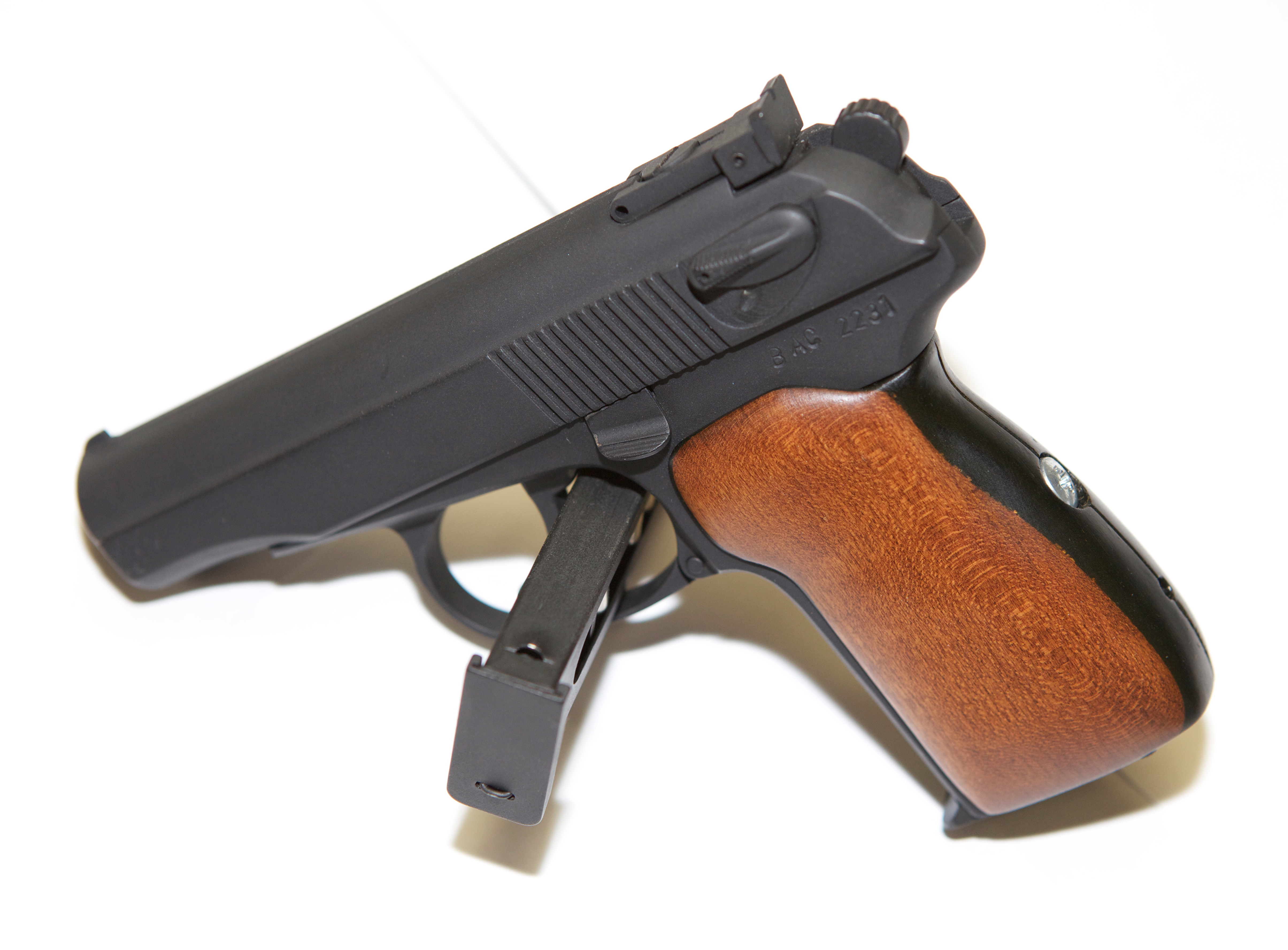 Custom finish Makarov Pistol (Russian)